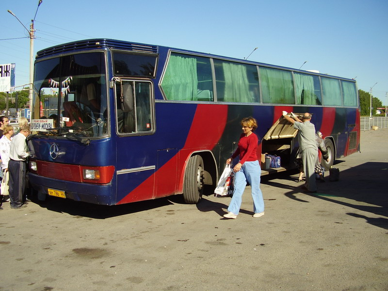 Bus Drögmöller, marshrut Voroneg-Moskva.